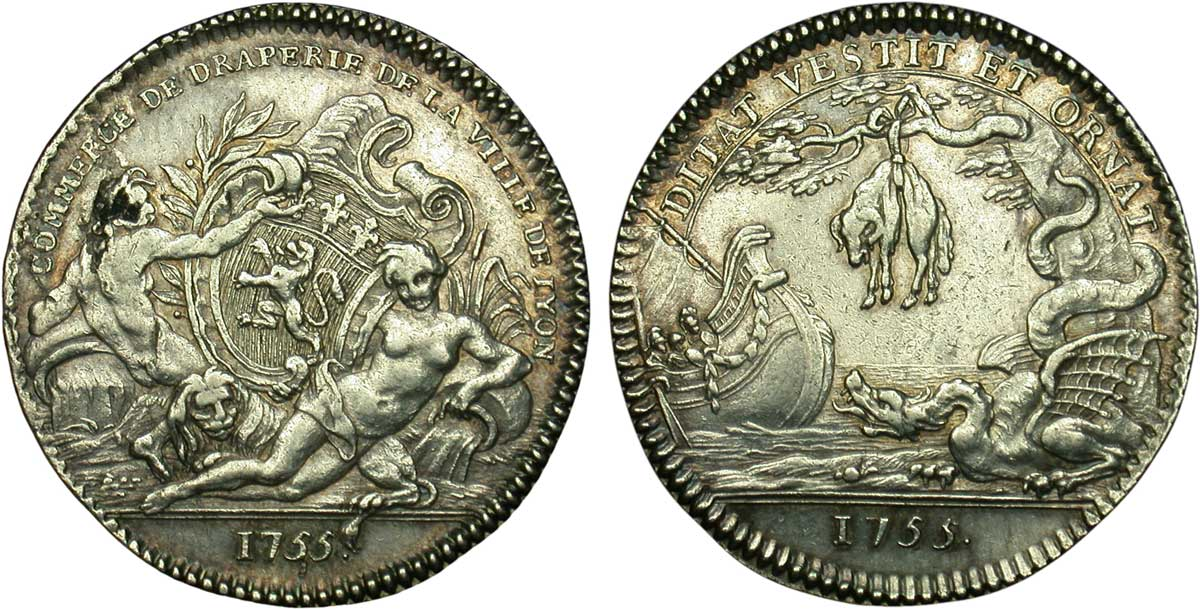 Jeton de la corporation des commerces de draperie,1755